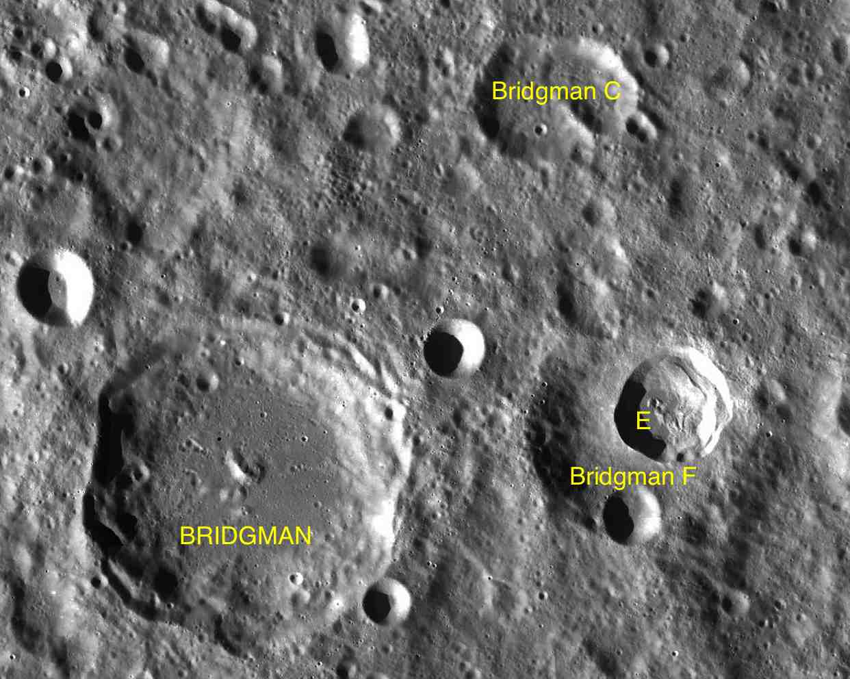 Part of the LAC-31 chart used for the presentation